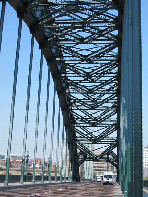 The Tyne Bridge (2)